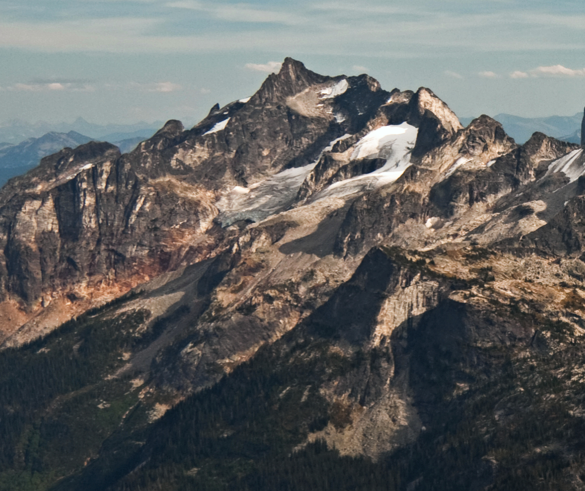 Valhallas' Gladsheim Peak seen from north